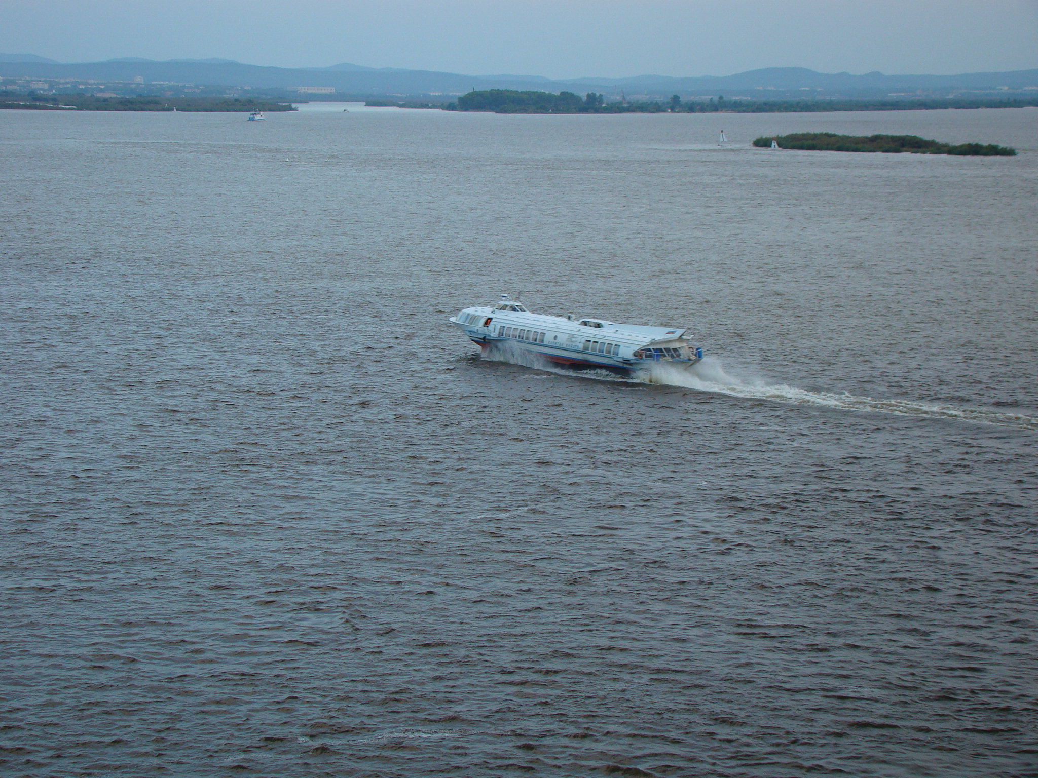 Amur